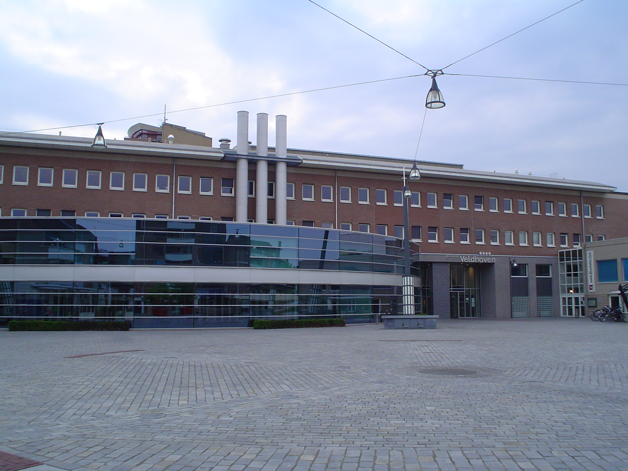 Town hall of Veldhoven; in use since 1988.